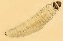 Stainton’s Natural History of the Tineina (1855–1873): Sorhagenia rhamniella